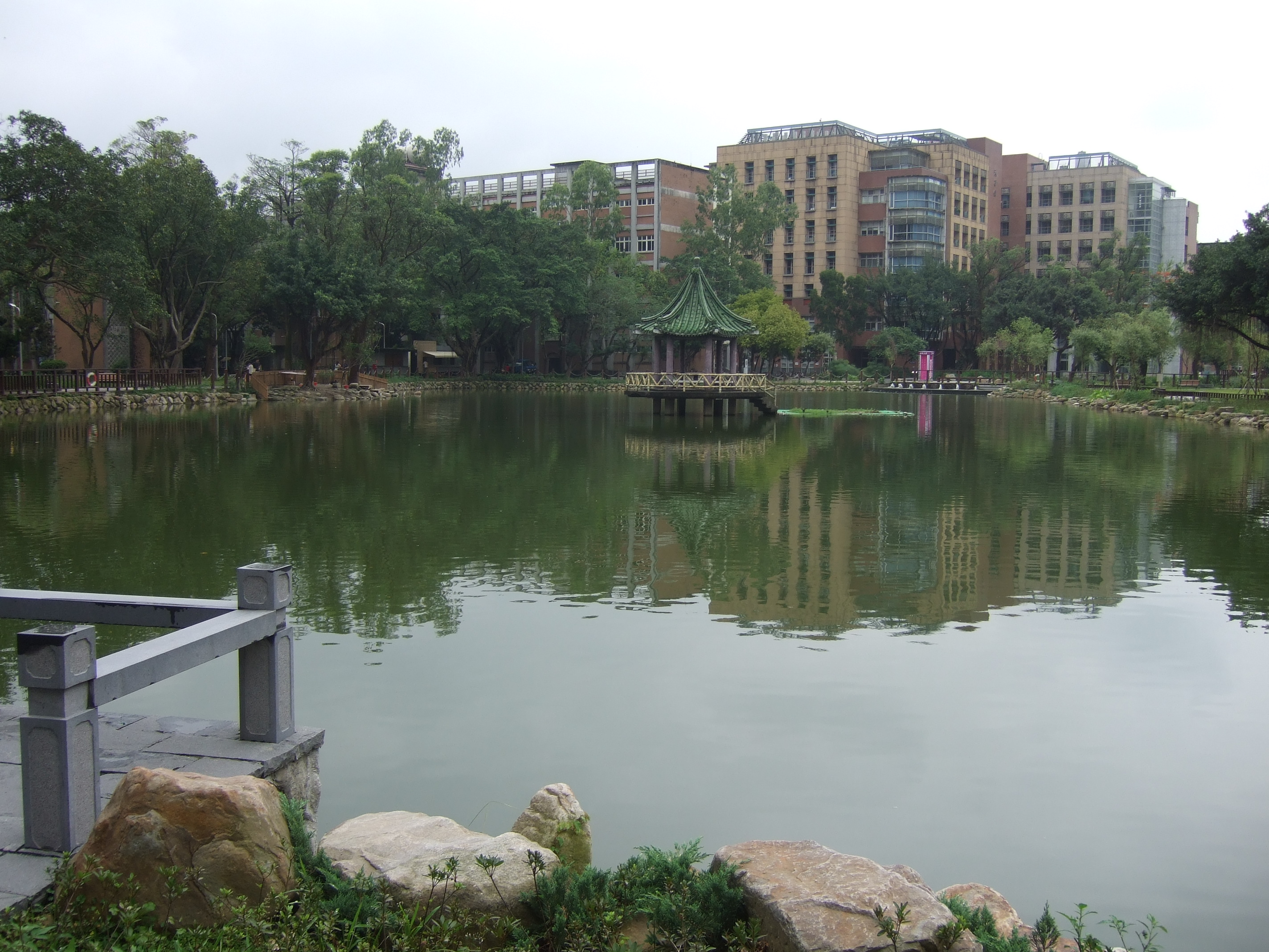 After centuries major renovation of the Drunken Moon Lake